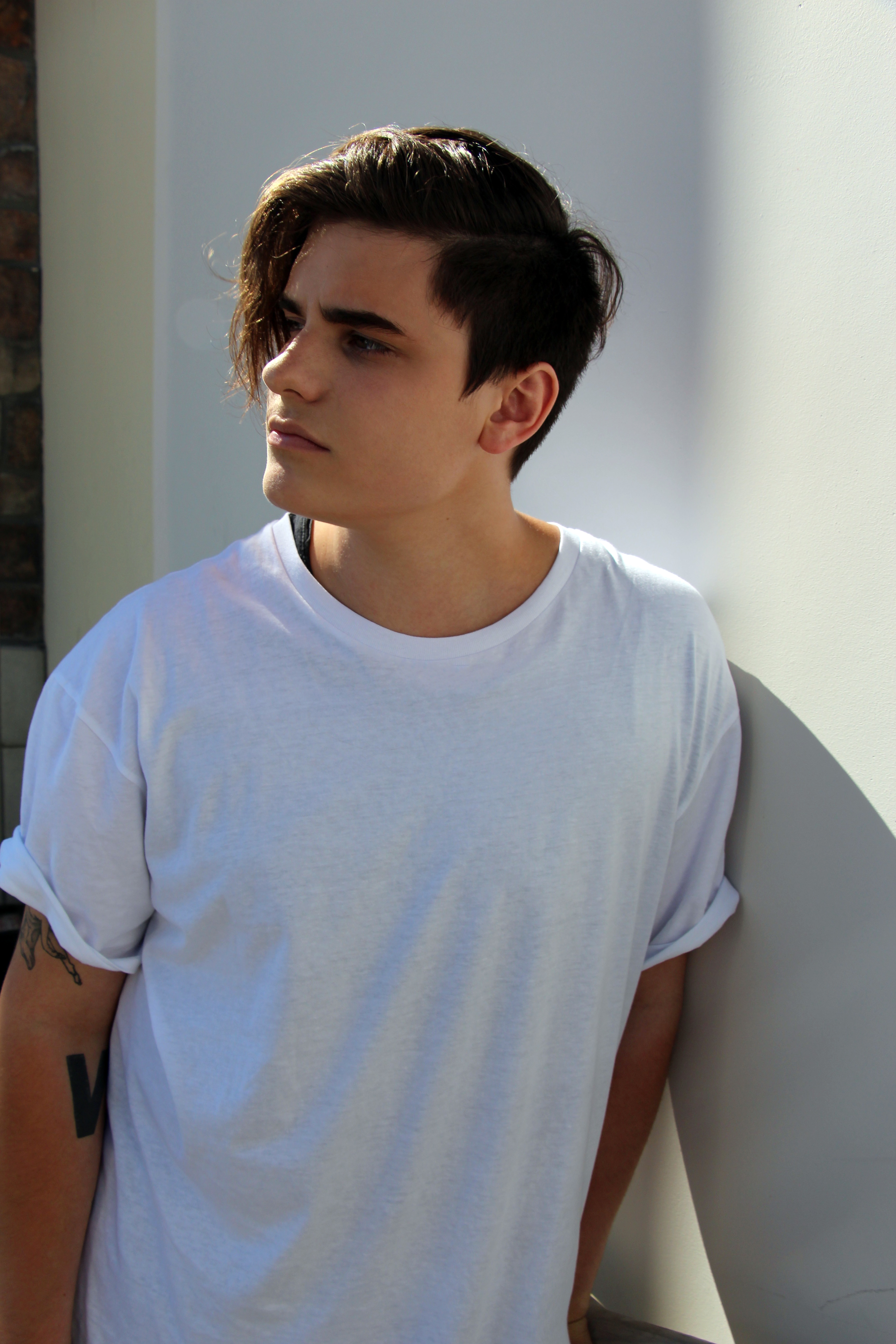 A photo of Audien in Los Angeles.